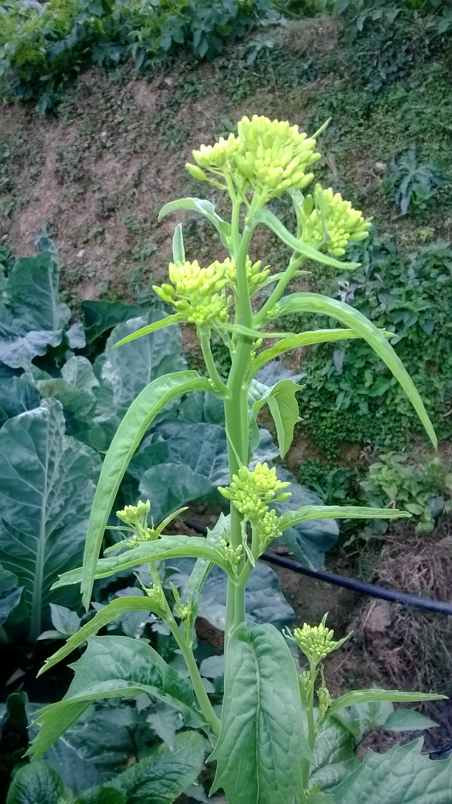 Brassica juncea flower during January.